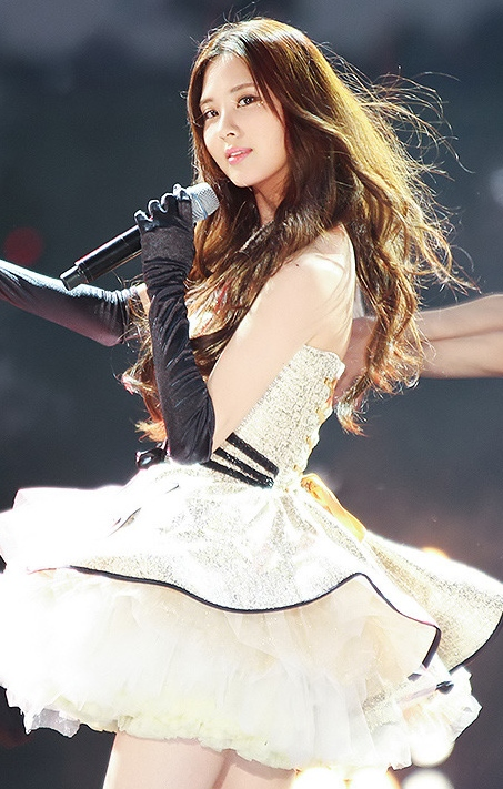 Seohyun at Suncheon Bay Garden Expo International K-POP Concert August 31, 2013.